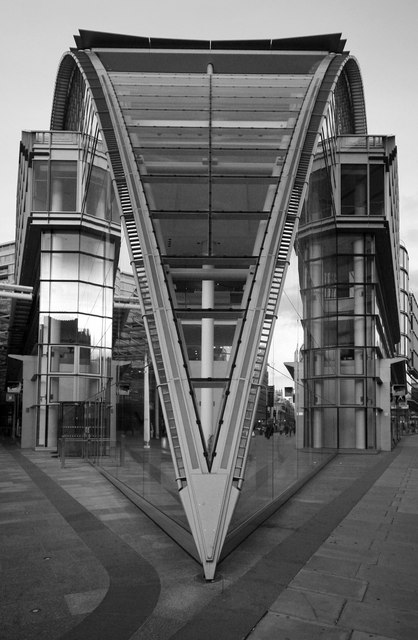 Cardinal Place The new office complex, Cardinal Place, in Victoria.